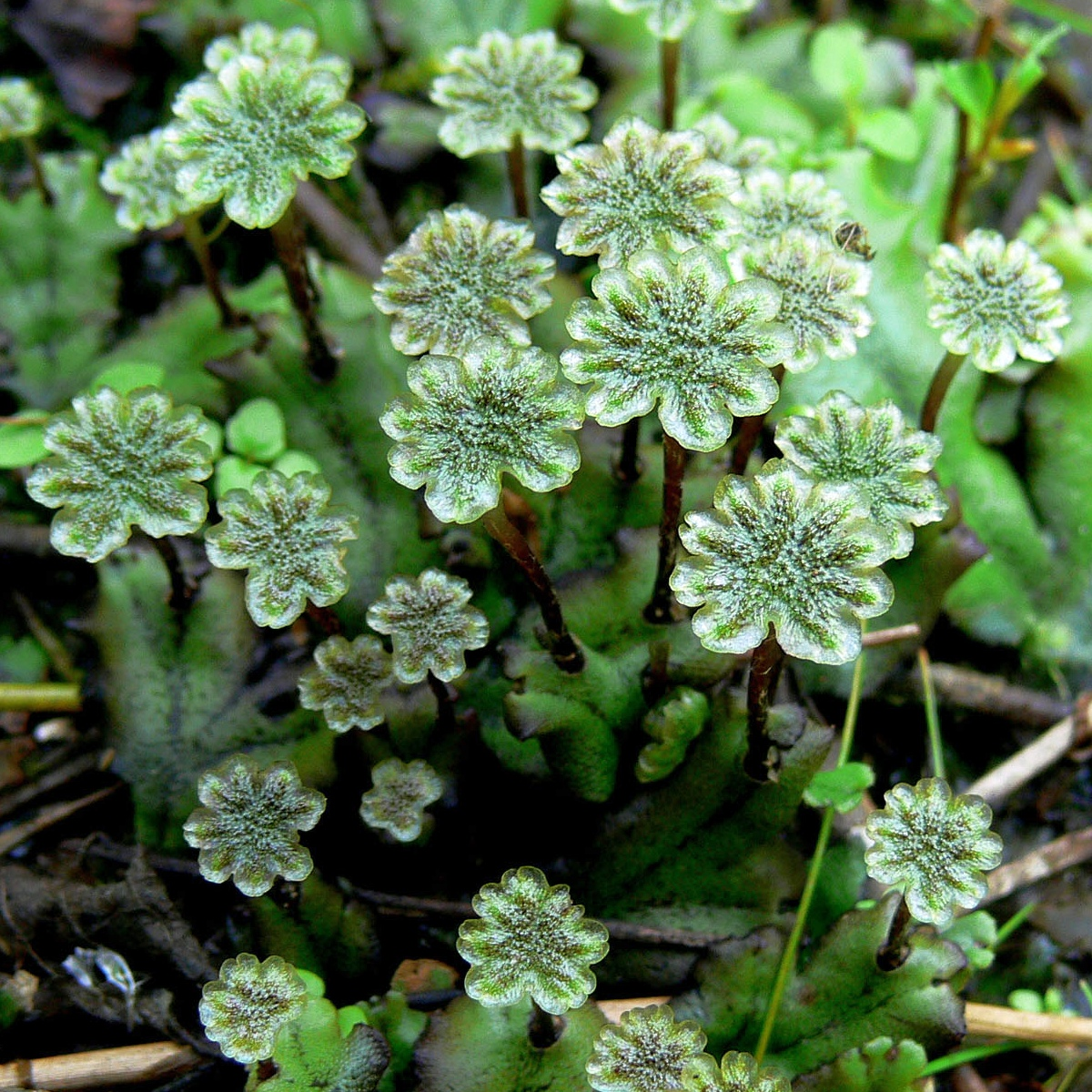 Male Marchantia plants at the edge of a pond